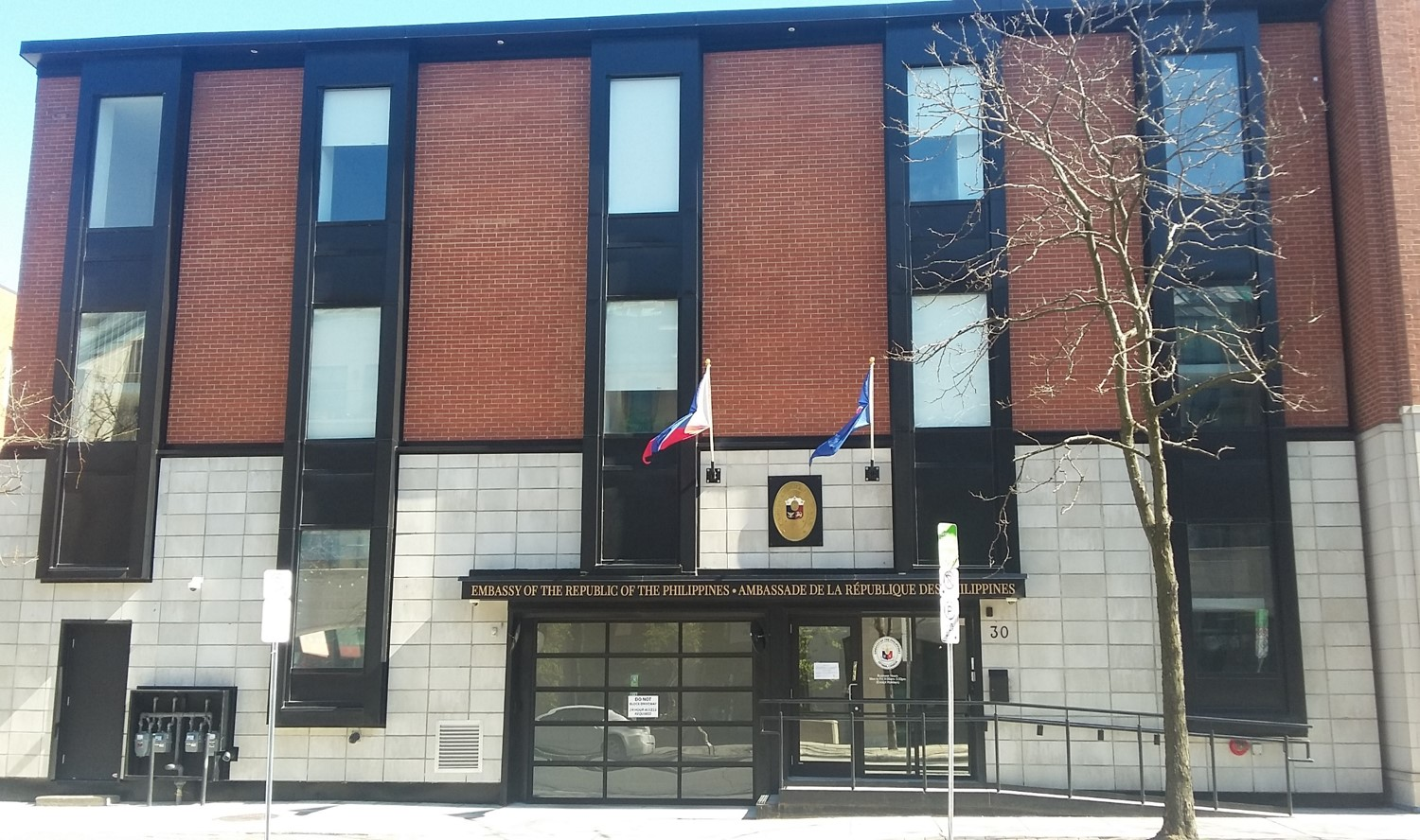 Exterior of the Embassy of the Philippines in Ottawa, Canada. Tagalog: Labas ng Embahada ng Pilipinas sa Ottawa, Kanada.